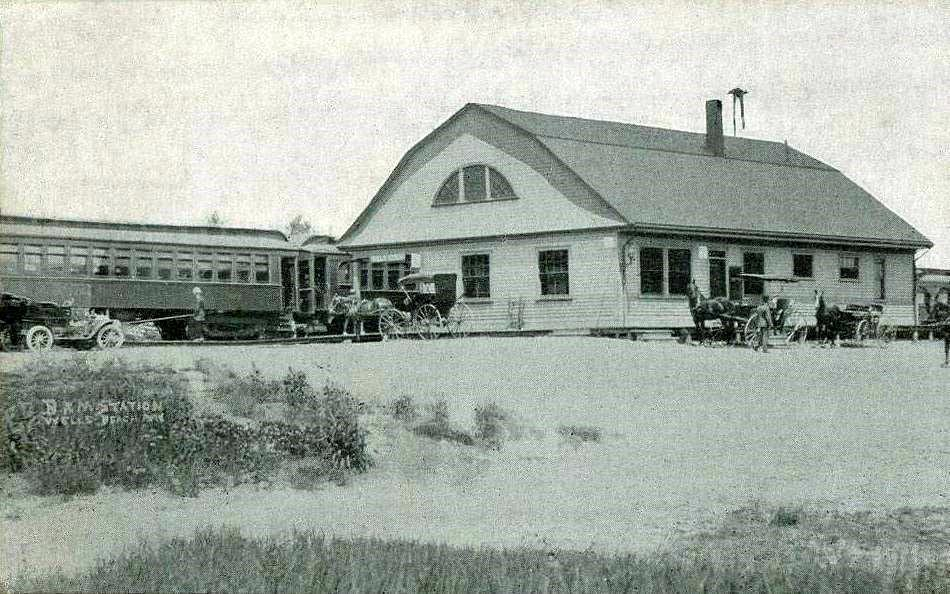 Boston & Maine Railroad Station, Wells Beach, Maine